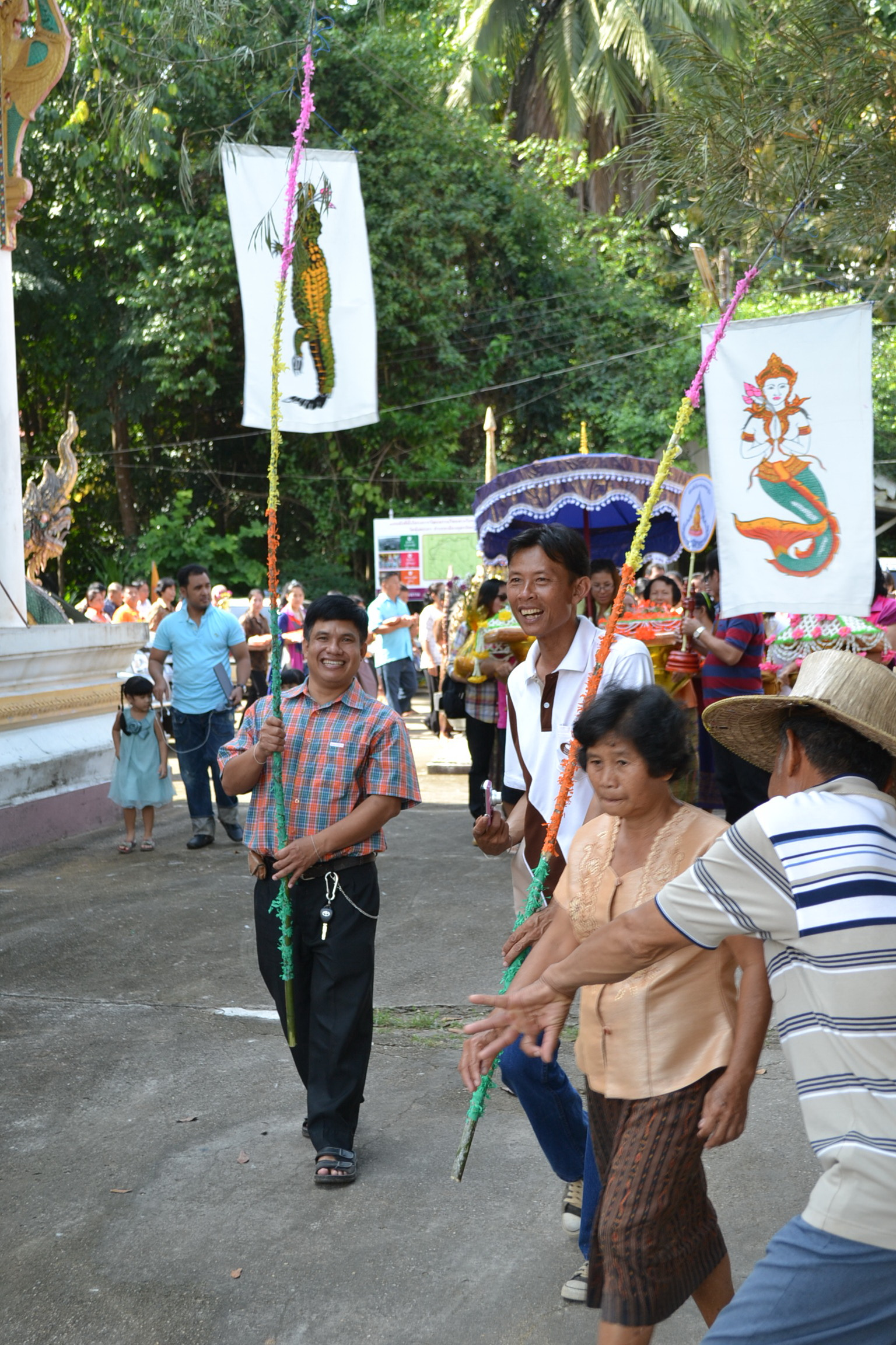 Kathina Festival Location: Wat Khung Taphao Ban Khung Taphao, Khung Taphao subdistrict, Mueang Uttaradit, Uttaradit Province, Thailand.